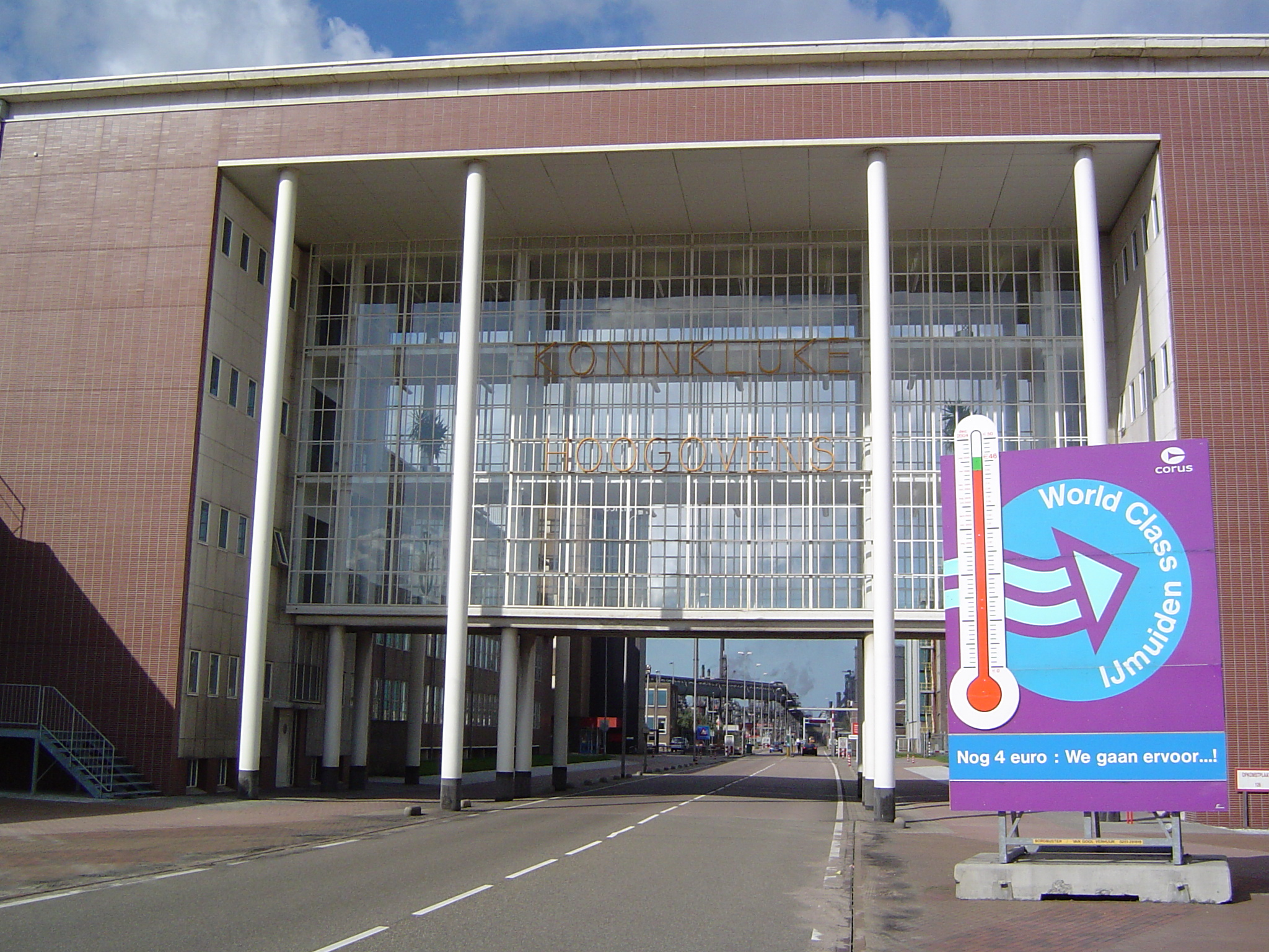 Hoogovens Steal (Corus). Building by Dutch architect Dudok